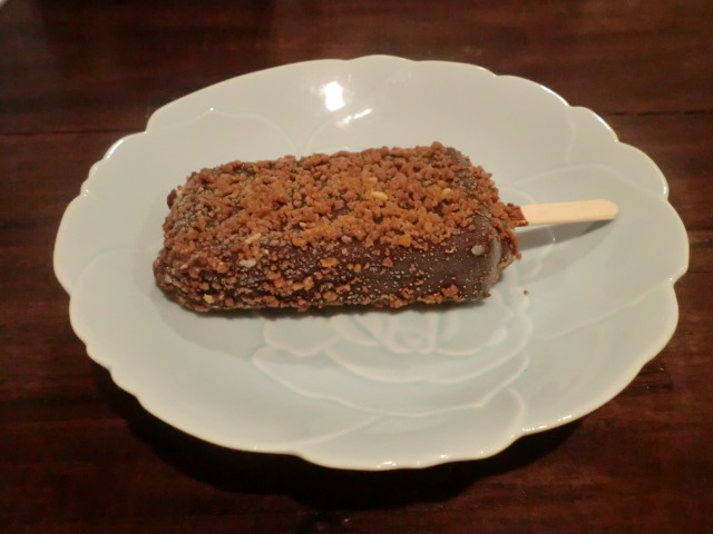 Black Mont Blanc(Japanese ice cream,made by Takeshita Confectionary).